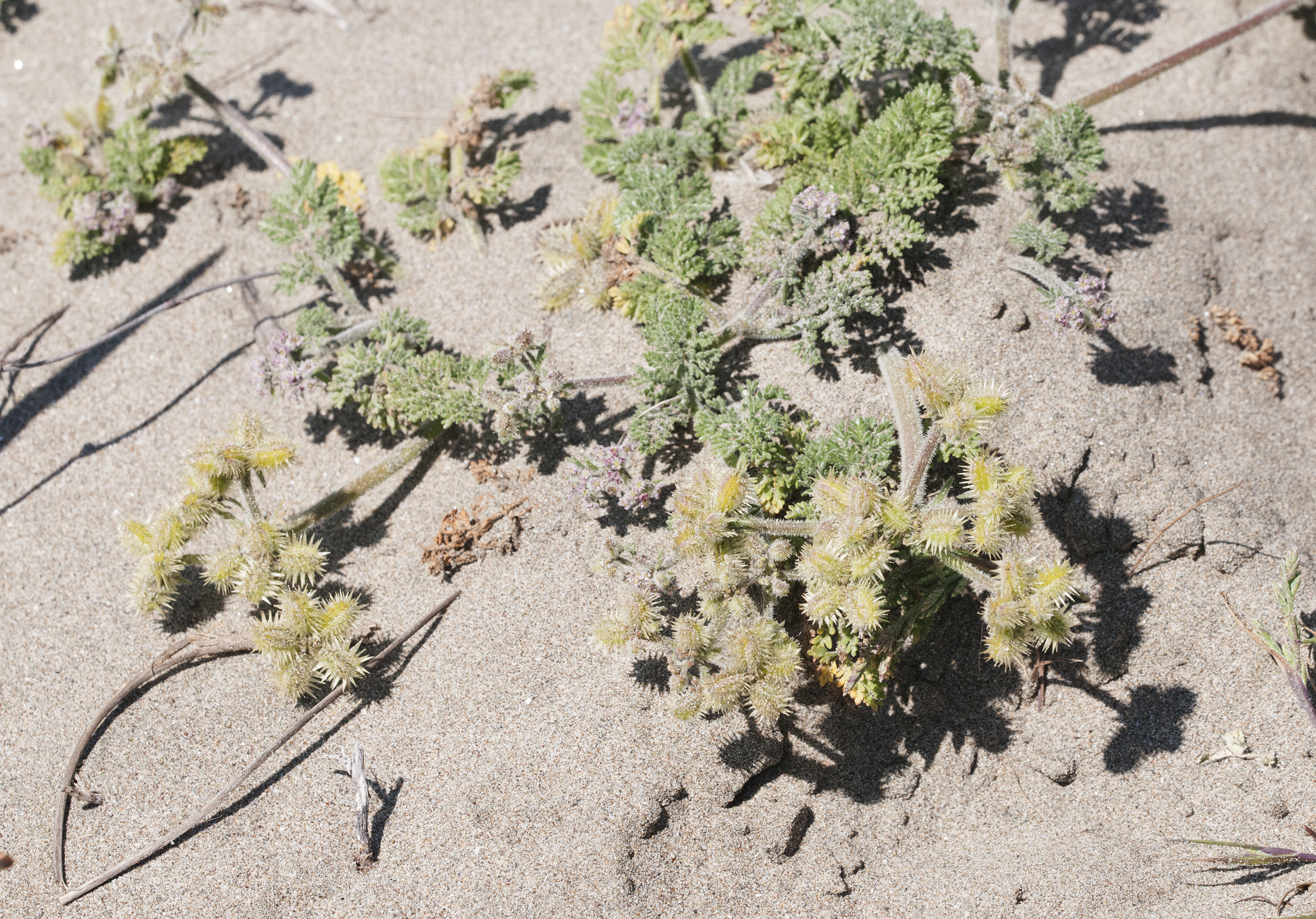 Dune carrot (Pseudorlaya pumila) at Dune Harbiş, Karataş - Adana, Turkey.